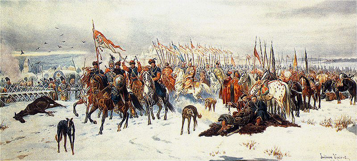 The Relief of Smolensk, during the Polish-Muscovite War (1605-1618) by Juliusz Kossak